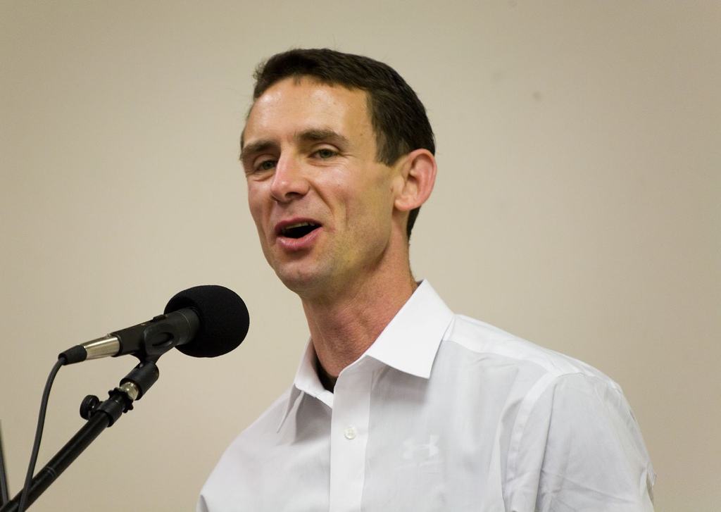 Charles Michael "Chuck" Palahniuk next to microphone.